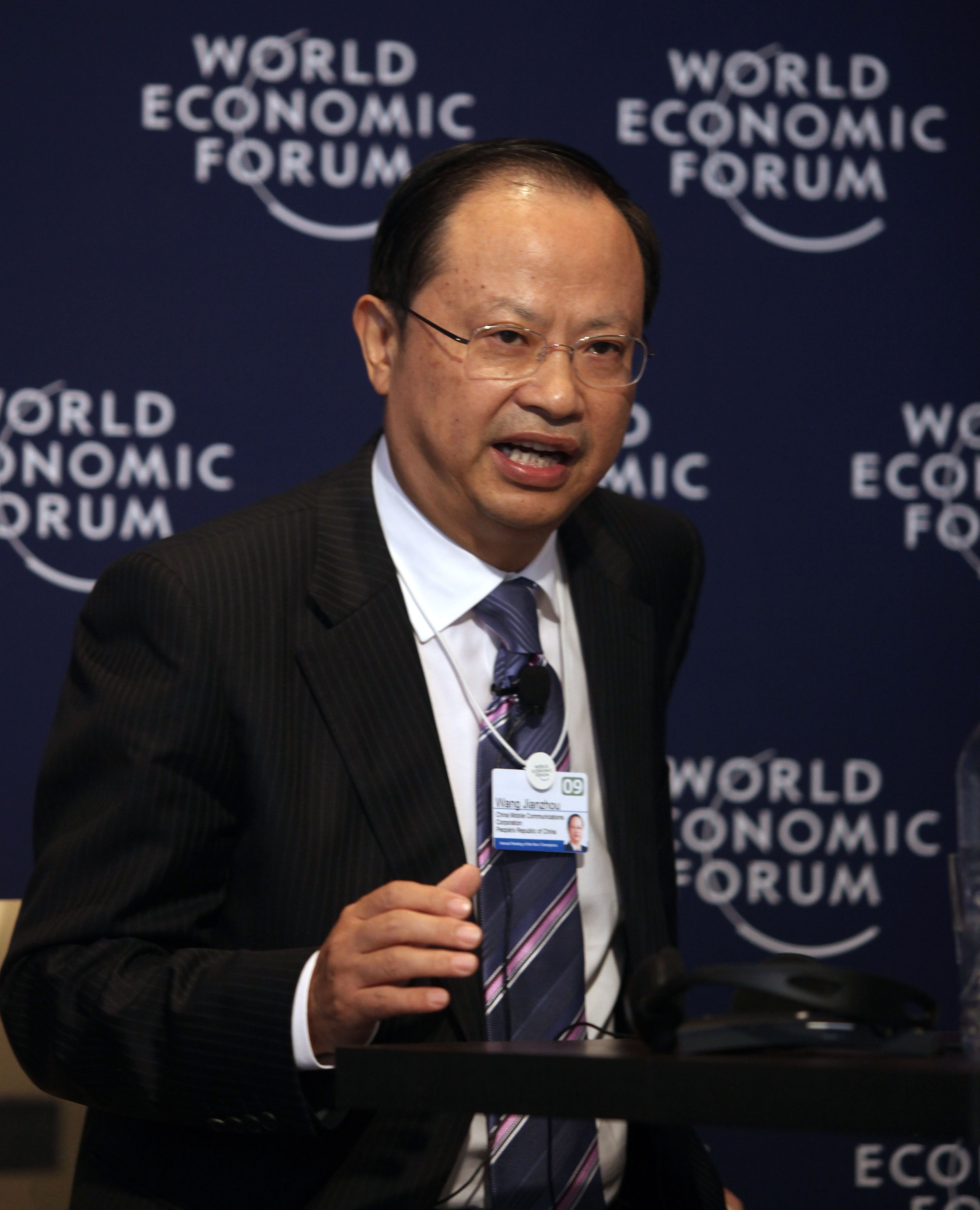 DALIAN/CHINA, 12SEPT09 - Wang Jianzhou, Chairman and Chief Executive, China Mobile Communications Corporation, speaks during the Digital Transformations session at The World Economic Forum Annual Meeting of the New Champions in Dalian, China 10-12 September 2009. Copyright World Economic Forum ( /Nick Otto)